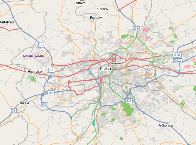 OpenStreetMap cut-out (or derivative work based on it): without further description This cut-out may be incomplete, and may contain errors, or may be obsolete. Don't rely solely on it for navigation. See the image in the present state and its original context on the OpenStreetMap wiki page for Osm-200804-praha.png